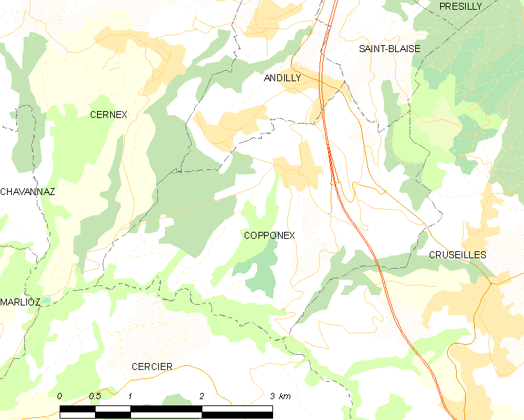 Map of French municipality Copponex